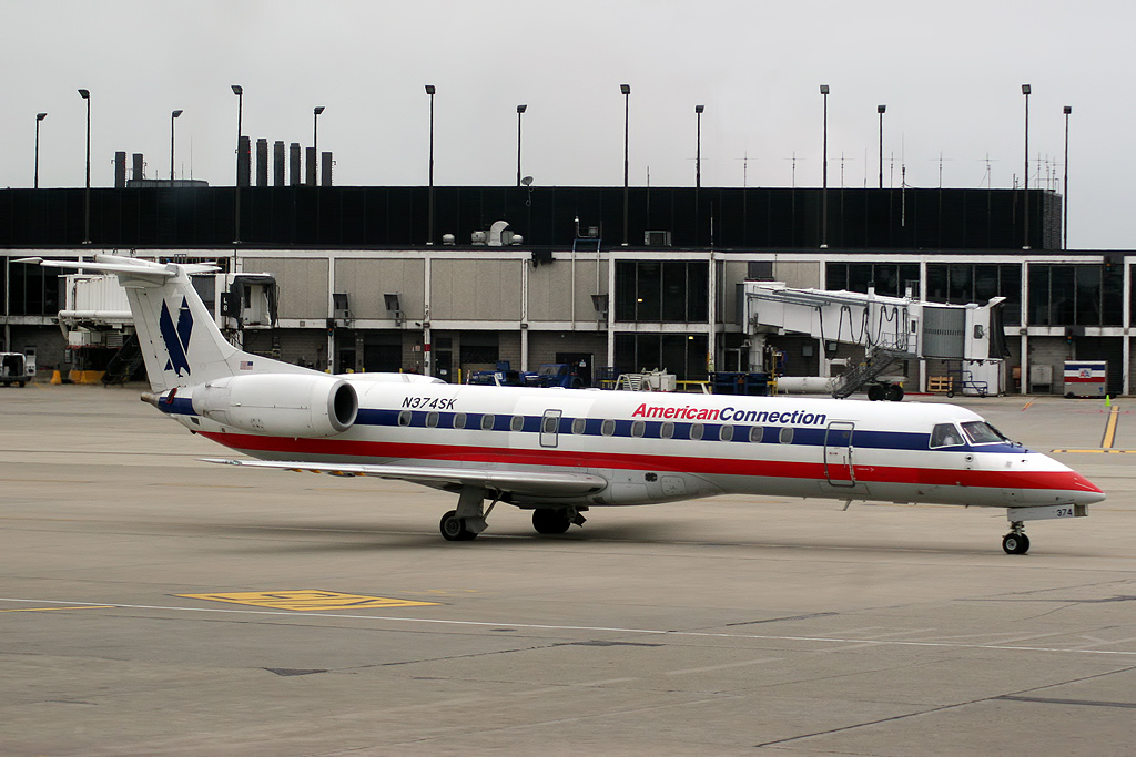 Chicago O Hare International KORD/ORD